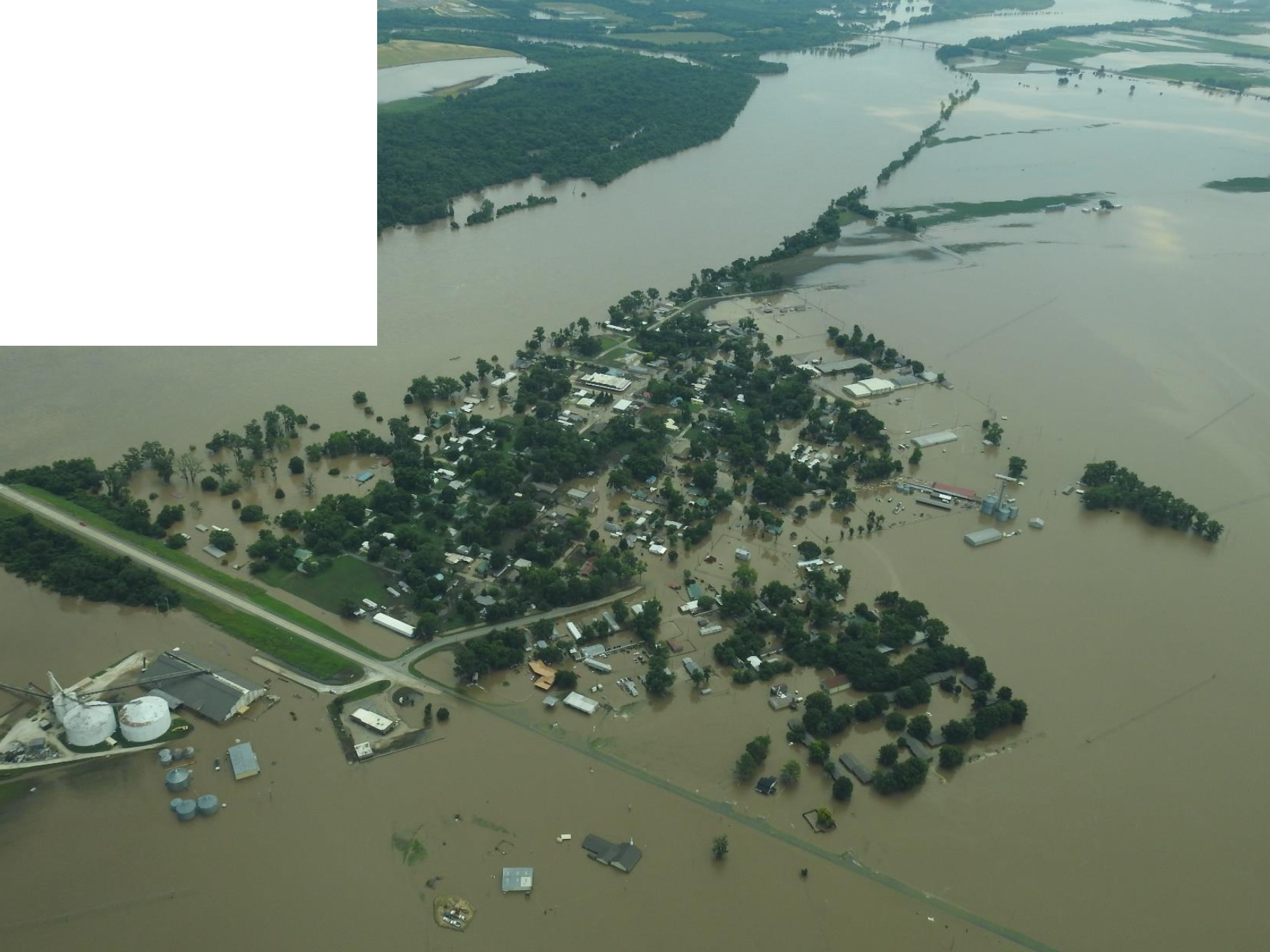 Webbers Falls, Oklahoma, inundated by a swollen Arkansas River on May 31, 2019.